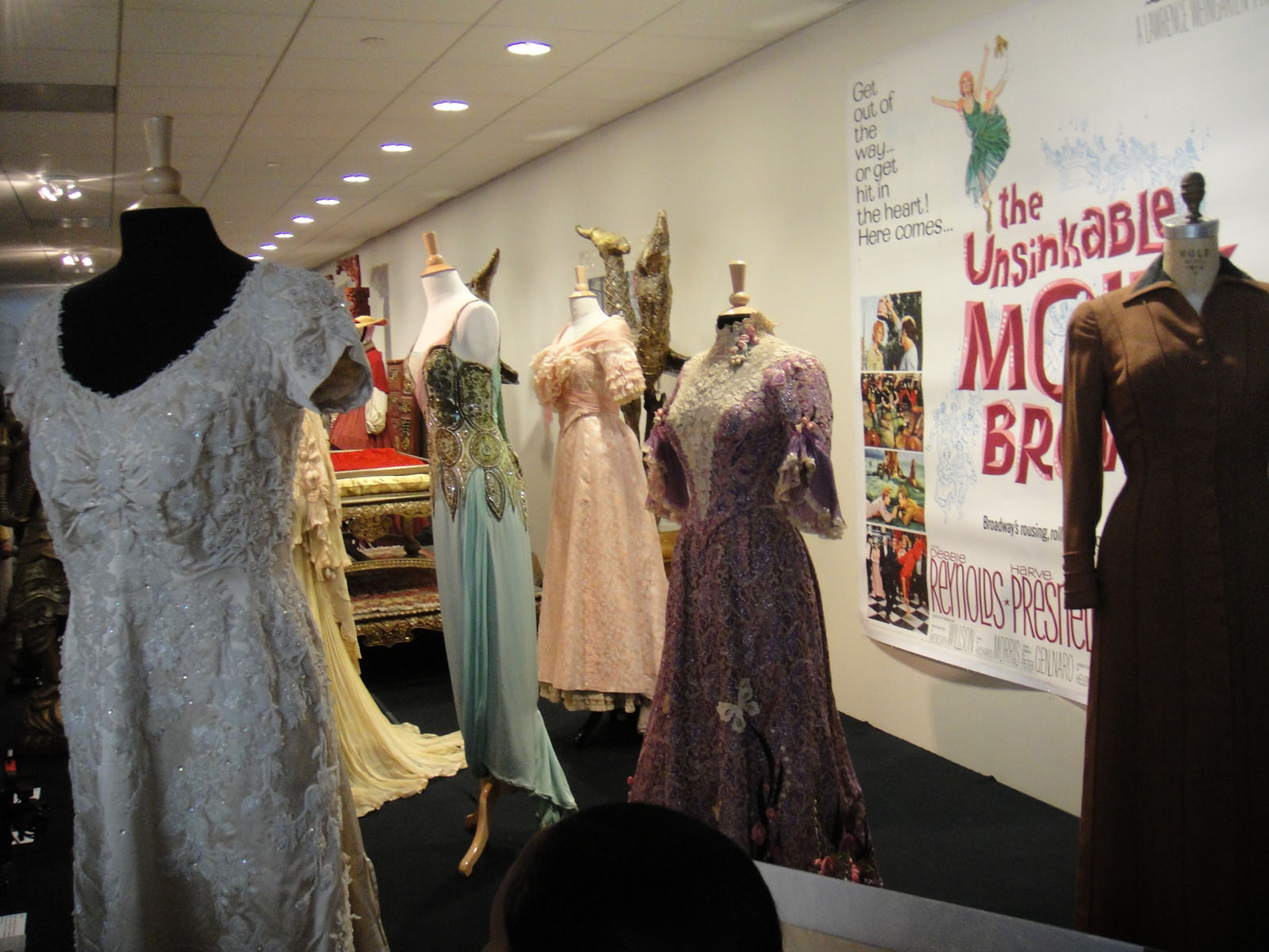 Costumes and poster from The Unsinkable Molly Brown at the Debbie Reynolds Auction Breaks Up Historic Hollywood Collection (The Paley Center for Media in Beverly Hills, Los Angeles, CA, USA).